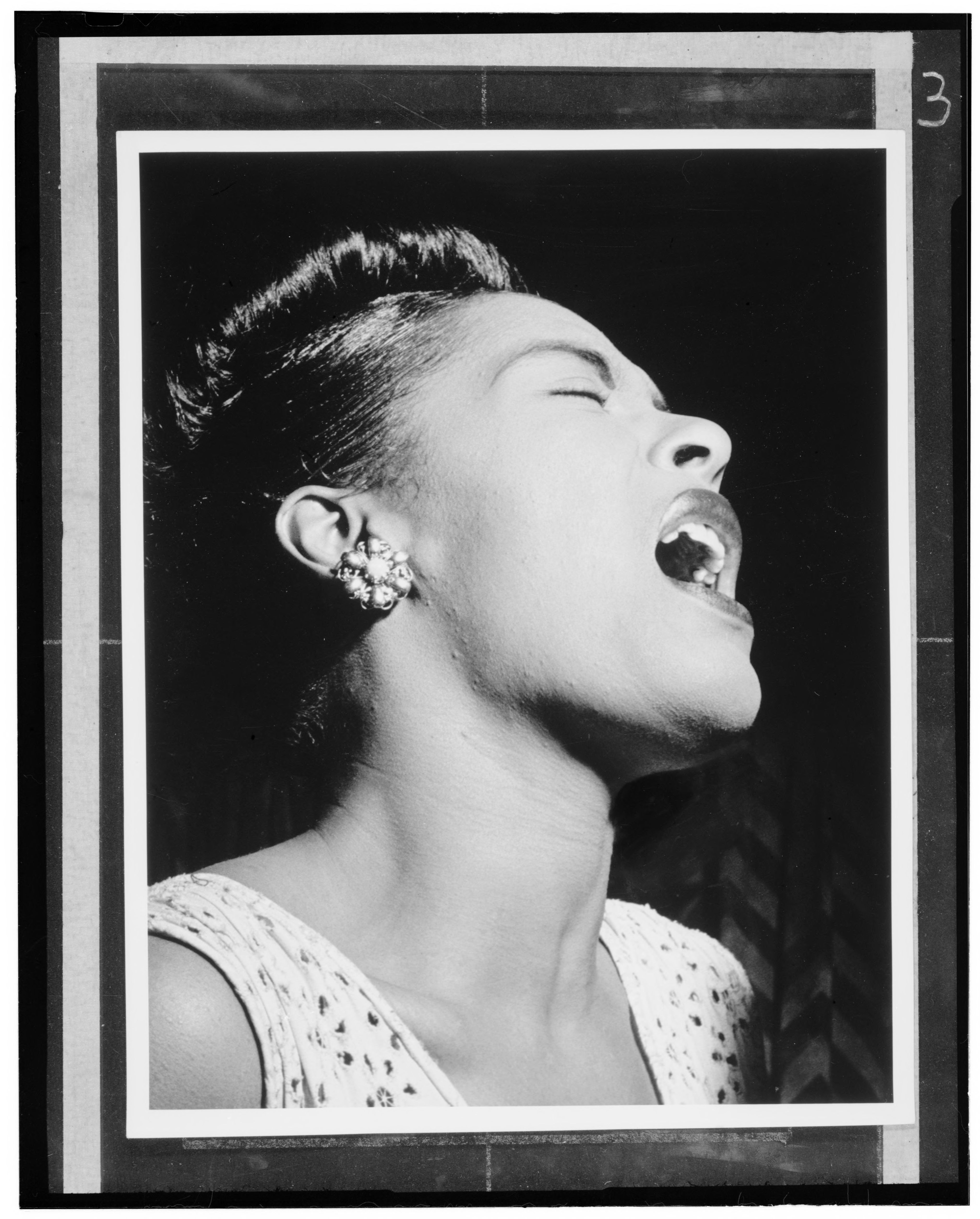 Gottlieb, William P., 1917-, photographer. [Portrait of Billie Holiday, Downbeat, New York, N.Y., ca. Feb. 1947] 1 negative : b&w ; 4 x 5 in. Notes: Gottlieb Collection Assignment No. 268 Reference print available in Music Division, Library of Congress. Purchase William P. Gottlieb Forms part of: William P. Gottlieb Collection (Library of Congress). In: The Record Changer, v. 5, no. 12 (Feb. 47, 1947), p. 7. Subjects: Holiday, Billie, 1915-1959 Women jazz musicians--1940-1950. Jazz singers--1940-1950. Fifty-second Street (New York, N.Y.)--1940-1950. Downbeat Format: Portrait photographs--1940-1950. Film negatives--1940-1950. Rights Info: Mr. Gottlieb has dedicated these works to the public domain, but rights of privacy and publicity may apply. Repository: (negative) Library of Congress, Prints & Photographs Division, Washington D.C. 20540 USA, (reference print) Library of Congress, Music Division, Washington D.C. 20540 USA, Part Of: William P. Gottlieb Collection (DLC) 99-401005 General information about the Gottlieb Collection is available at Persistent URL: Call Number: LC-GLB13- 0421 This work is from the William P. Gottlieb collection at the Library of Congress. Rights and restrictions. In accordance with the wishes of William Gottlieb, the photographs in this collection entered into the public domain on February 16, 2010.